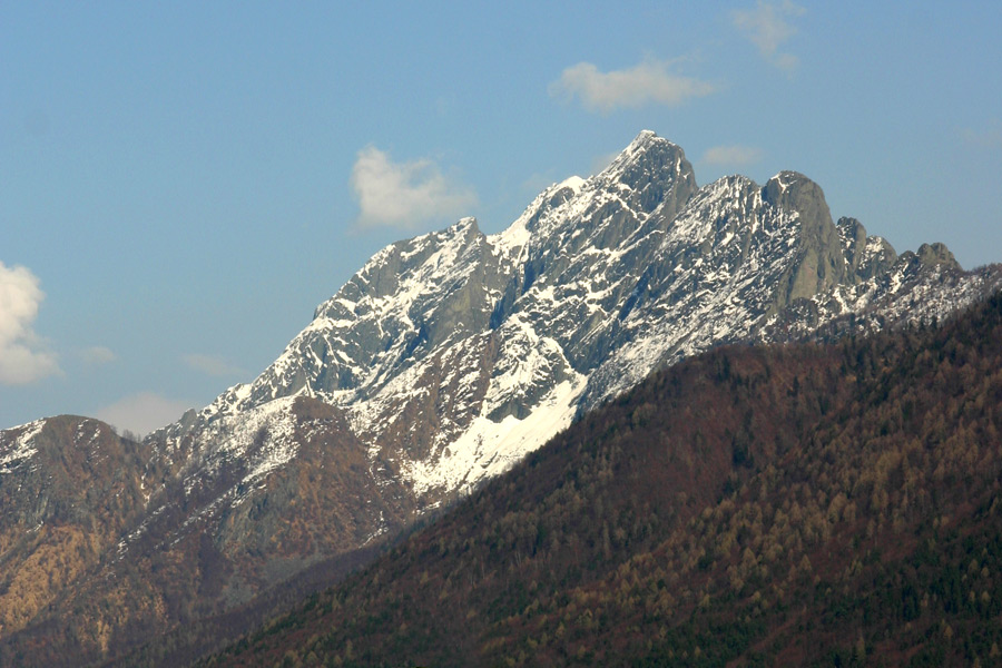 The Mount Gridone (aka Monte Limidario) as seen from the municipality of Malesco (VCO). The mountain is located in the Vigezzo Valley in Piedmont, Italy.